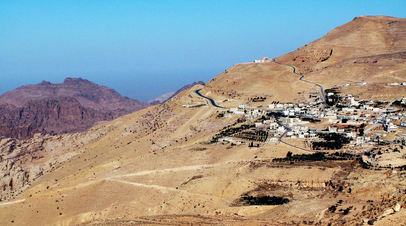 Jebel Harun (mt. of Aaron) at the left as seen from the Village of Taybe, south of Petra. the top of Jebel Harun has two peaks. on the right peak is the "Welly", The mosque on the grave of Aaron. in the photo it can be seen as a white dot on the top. Jebel Harun is part of Petra archeological site. Jebel Harun is located in the Horeb mountains, The red rocks area of Petra. high above the Horeb mountains is Mt. Seir or jebel A-Shara, where the village of Taybe is located and many other small villages. Photo by Uri Juda